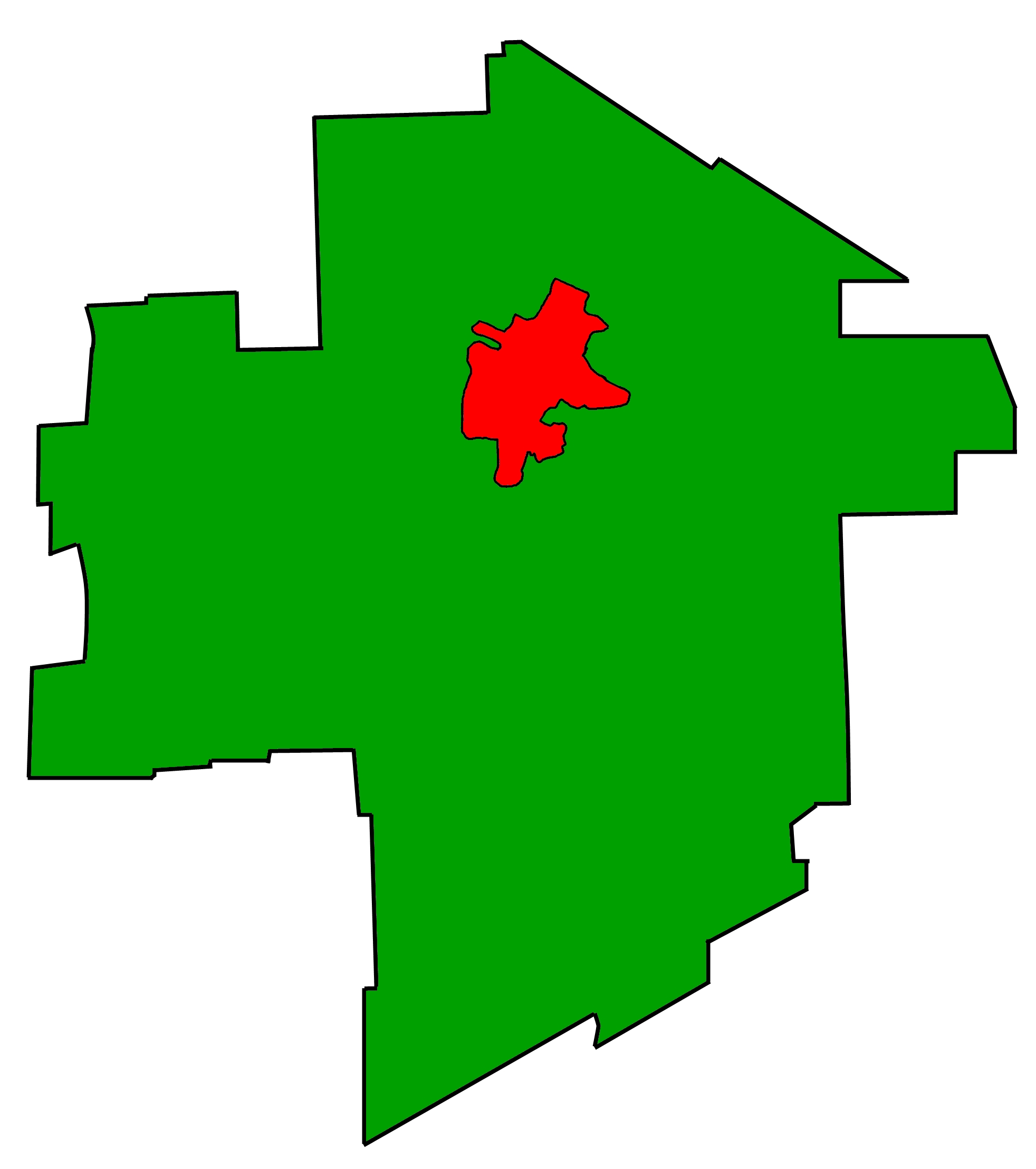 This file is a map of the city of Winnipeg. The red area is the geographic location of the neighbourhoods in the city which have high crime rates. The point of this picture is to go with a blurb about the concentrated crime in Winnipeg.